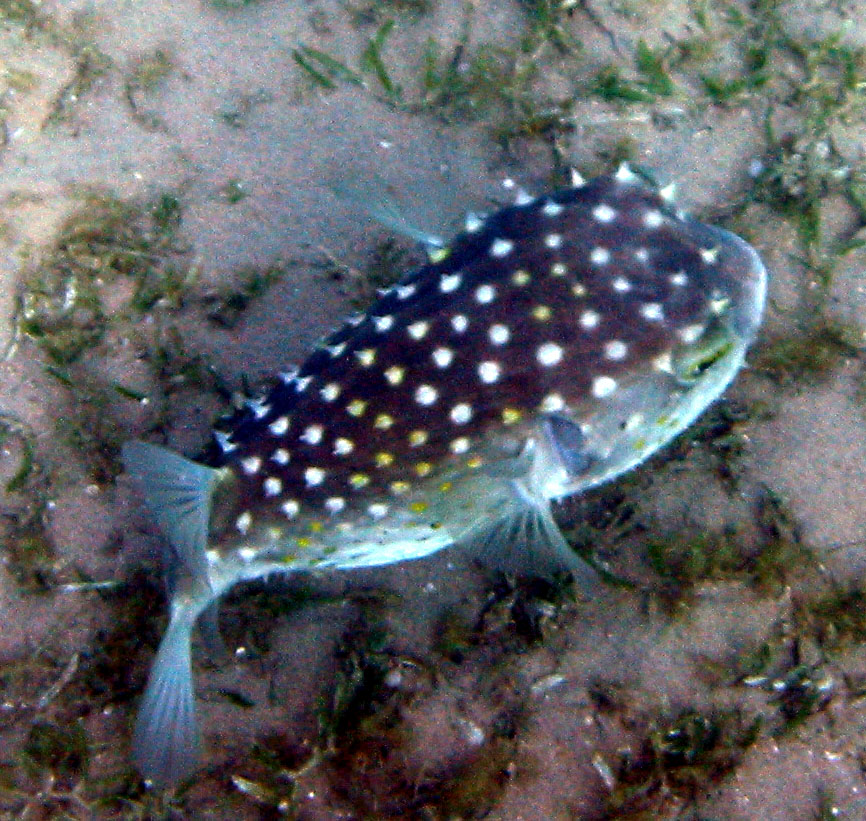 Cyclichthys spilostylus taba egypt colour adjusted in photoshop